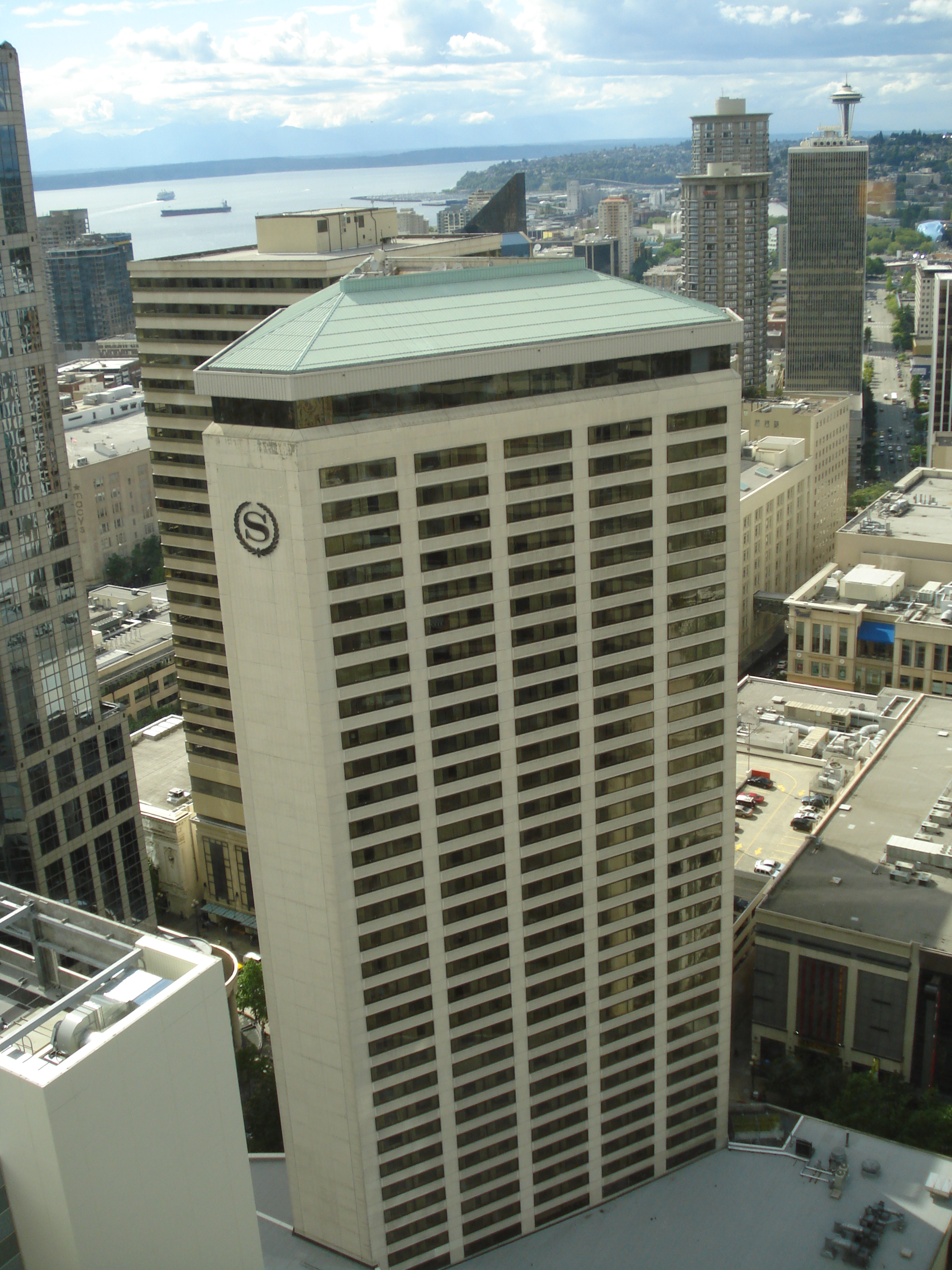 Downtown Seattle Sheraton Hotel from Two Union Square, Seattle, Washington